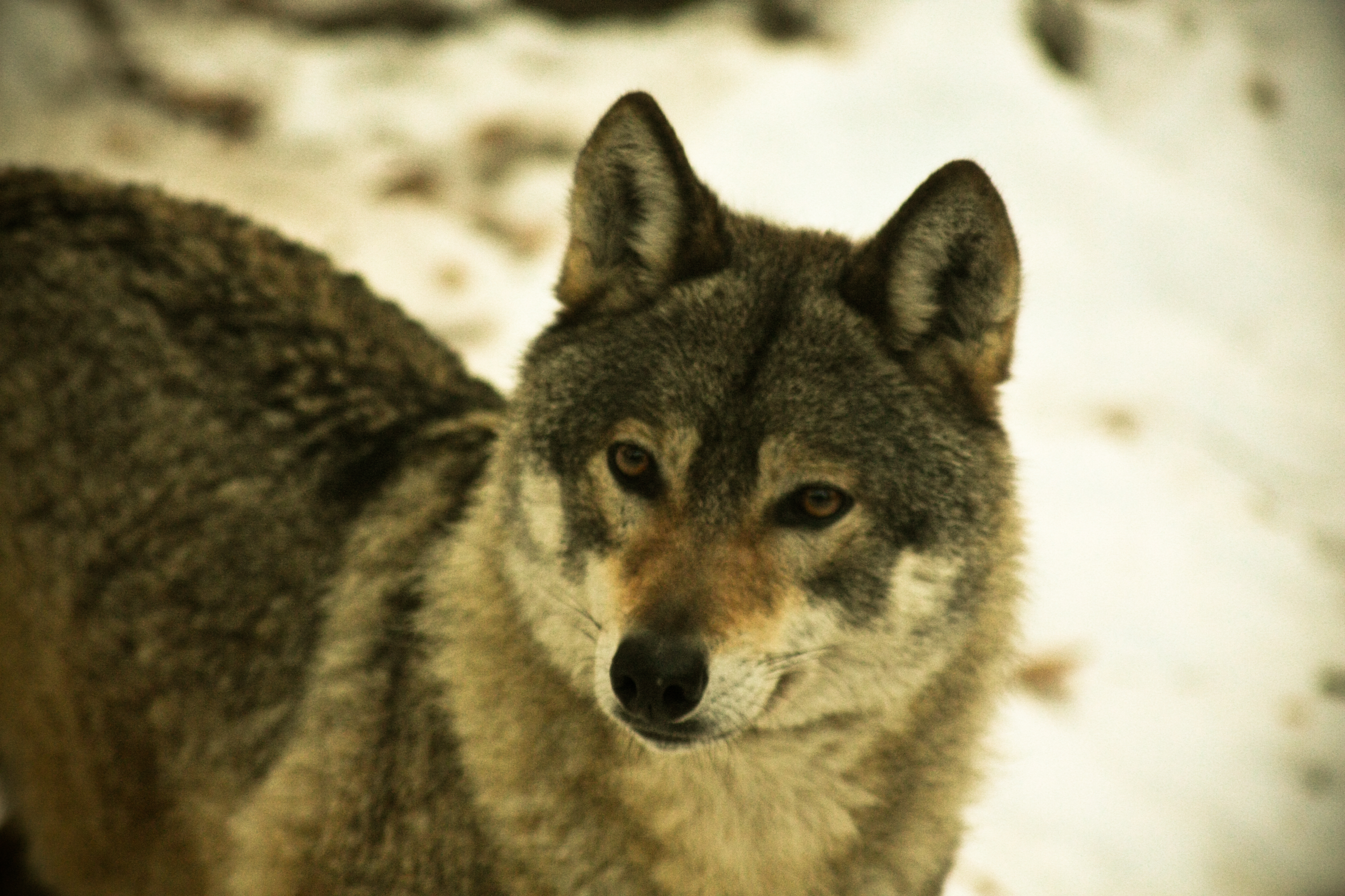 Wolf at Castello Belfort, Trentino-Alto Adige, Italy